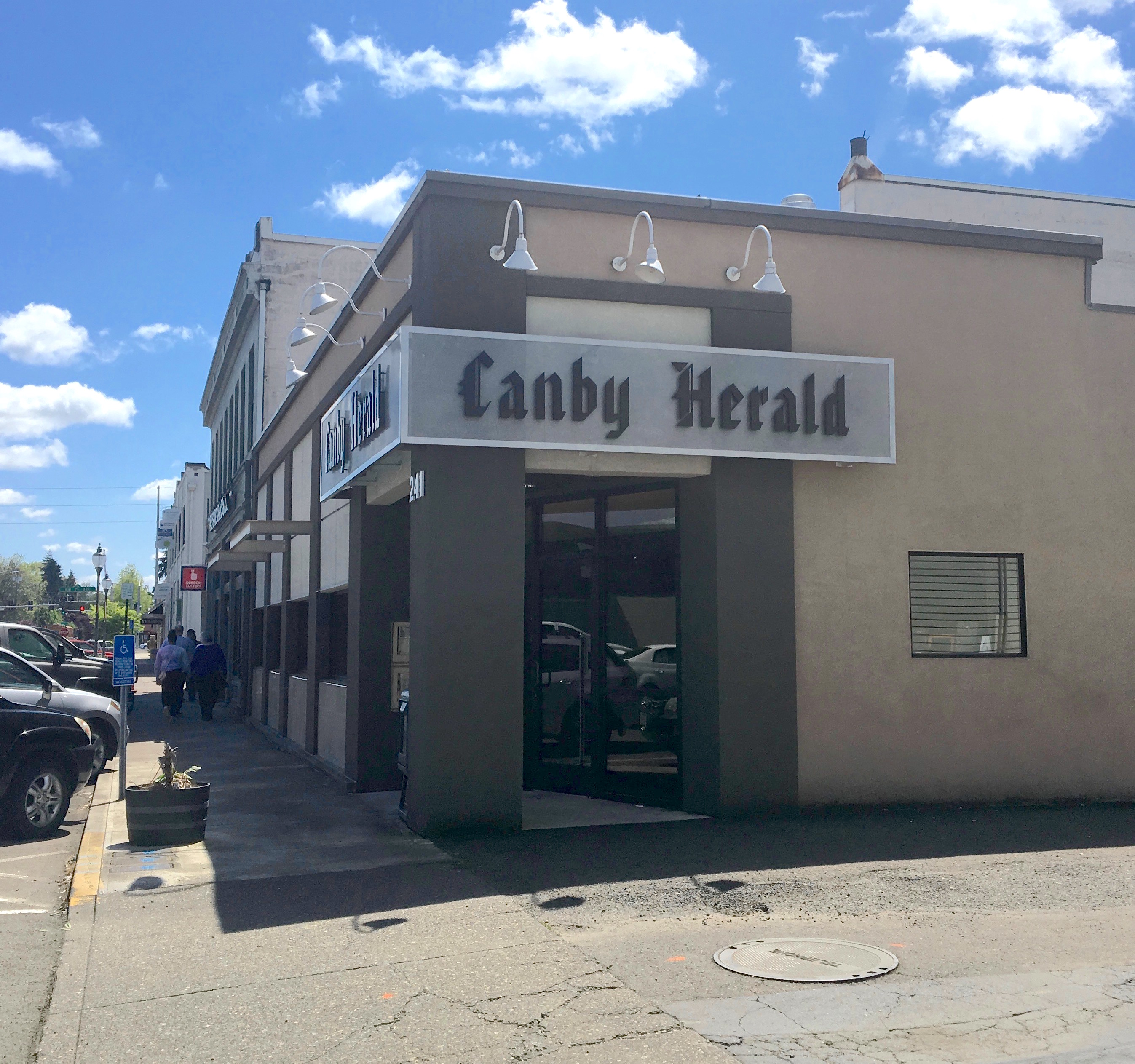 Canby, OR